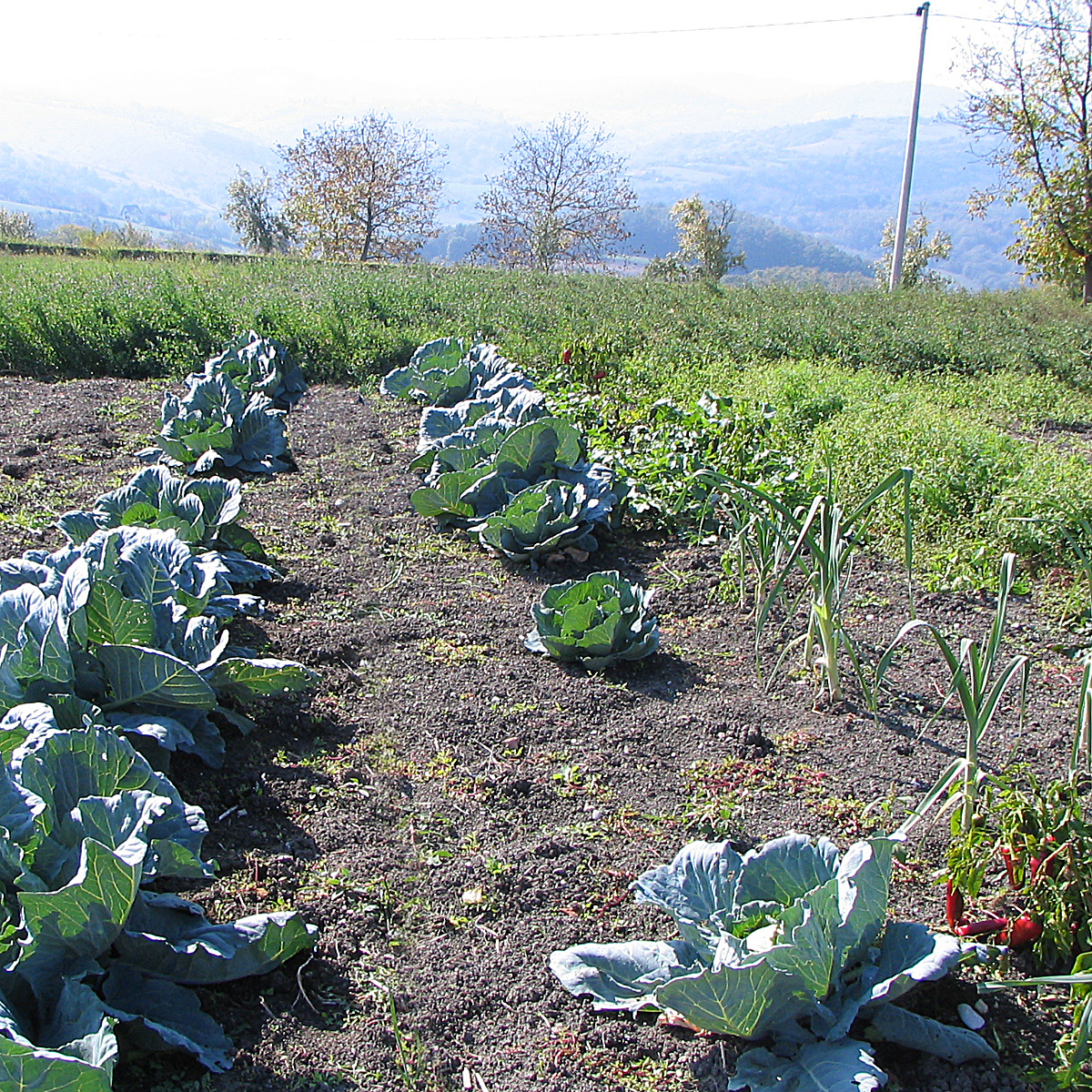 Vegetable garden, West Serbia